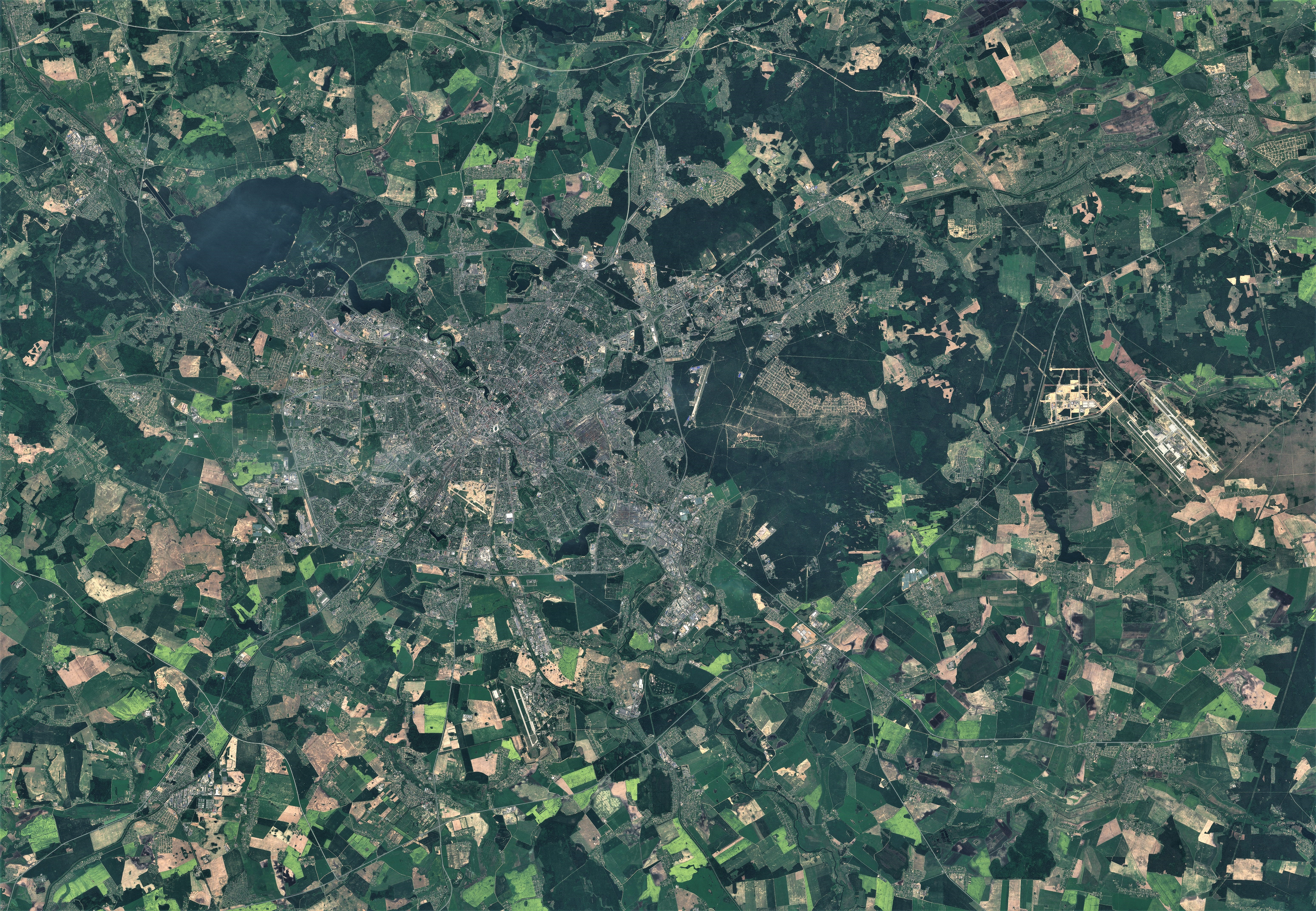 Minsk city (Belarus), Sentinel-2 satellite image, 2019-05-19, spatial resolution 10m, near natural colors